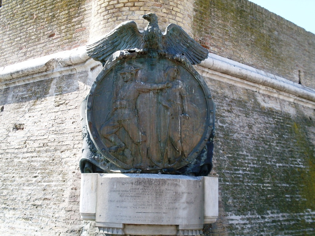 Italy Ancona Mole Vanvitelliana - targa 1918